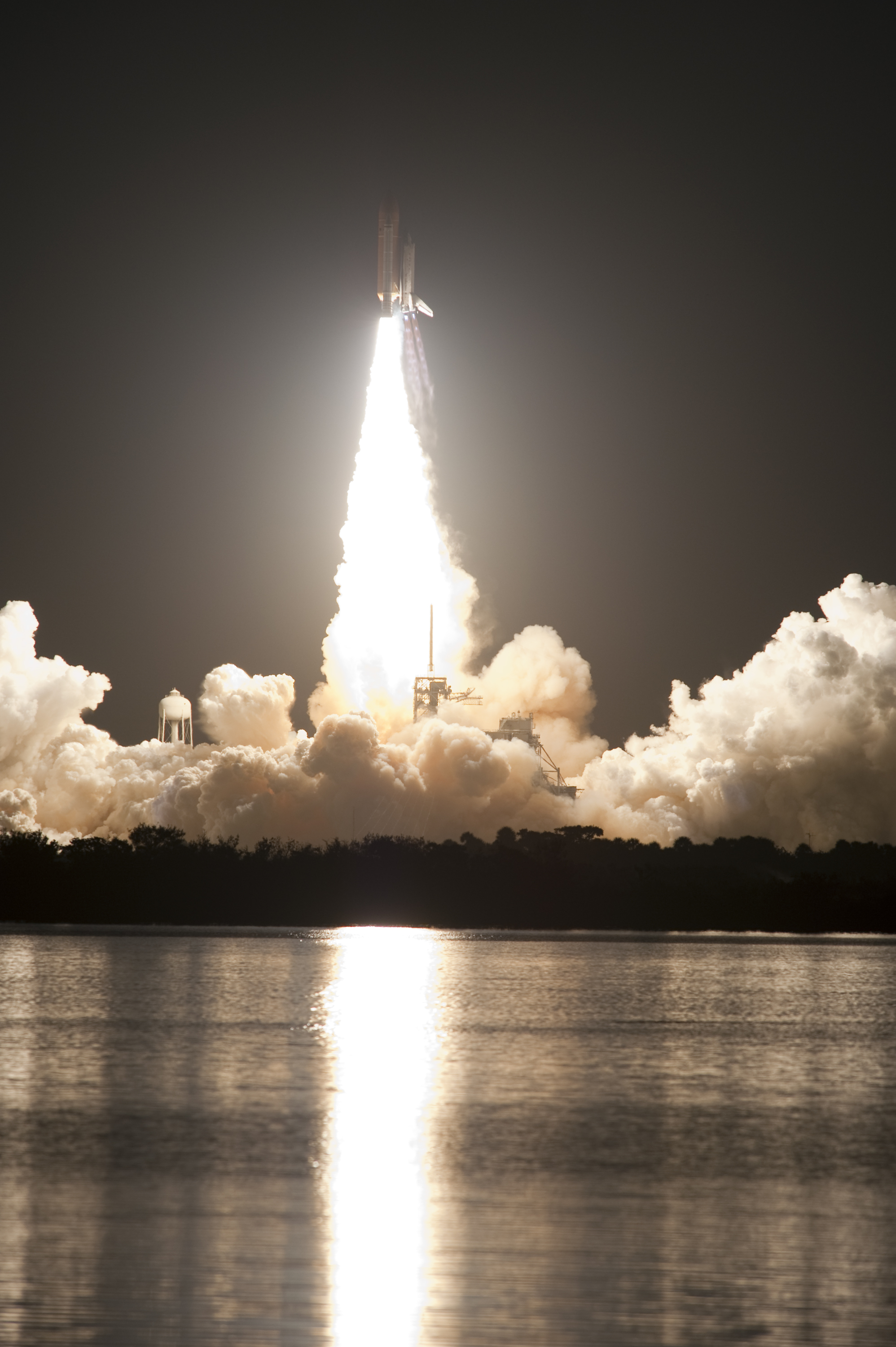 Space shuttle Discovery's launch is brilliant as it lifts off Launch Pad 39A at NASA's Kennedy Space Center in Florida at 6:21 a.m. EDT April 5 to begin the STS-131 mission. The seven-member crew will deliver the multi-purpose logistics module Leonardo, filled with supplies, a new crew sleeping quarters and science racks that will be transferred to the International Space Station's laboratories. The crew also will switch out a gyroscope on the station's truss, install a spare ammonia storage tank and retrieve a Japanese experiment from the station's exterior. STS-131 is the 33rd shuttle mission to the station and the 131st shuttle mission overall.